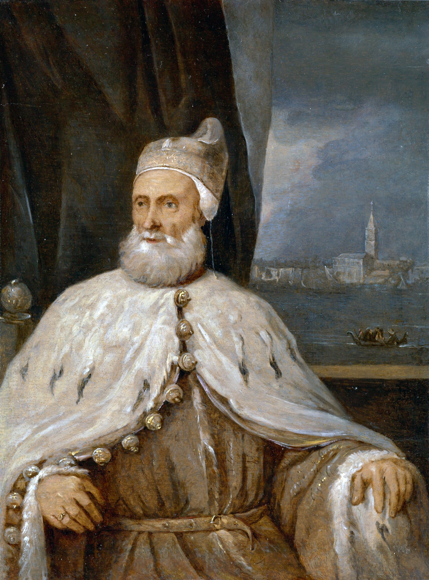 Archduke Leopold William in his Gallery at Brussels; detail